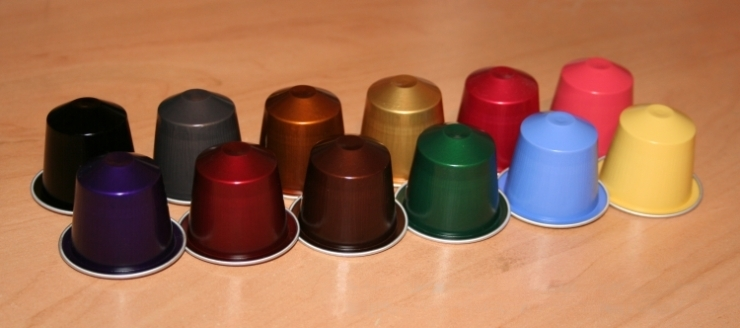 12 of the 16 Nespresso capsules